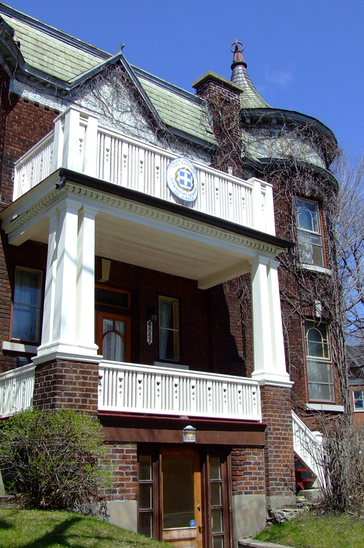 Westmount, Montreal